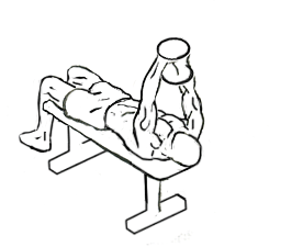 an exercise of triceps